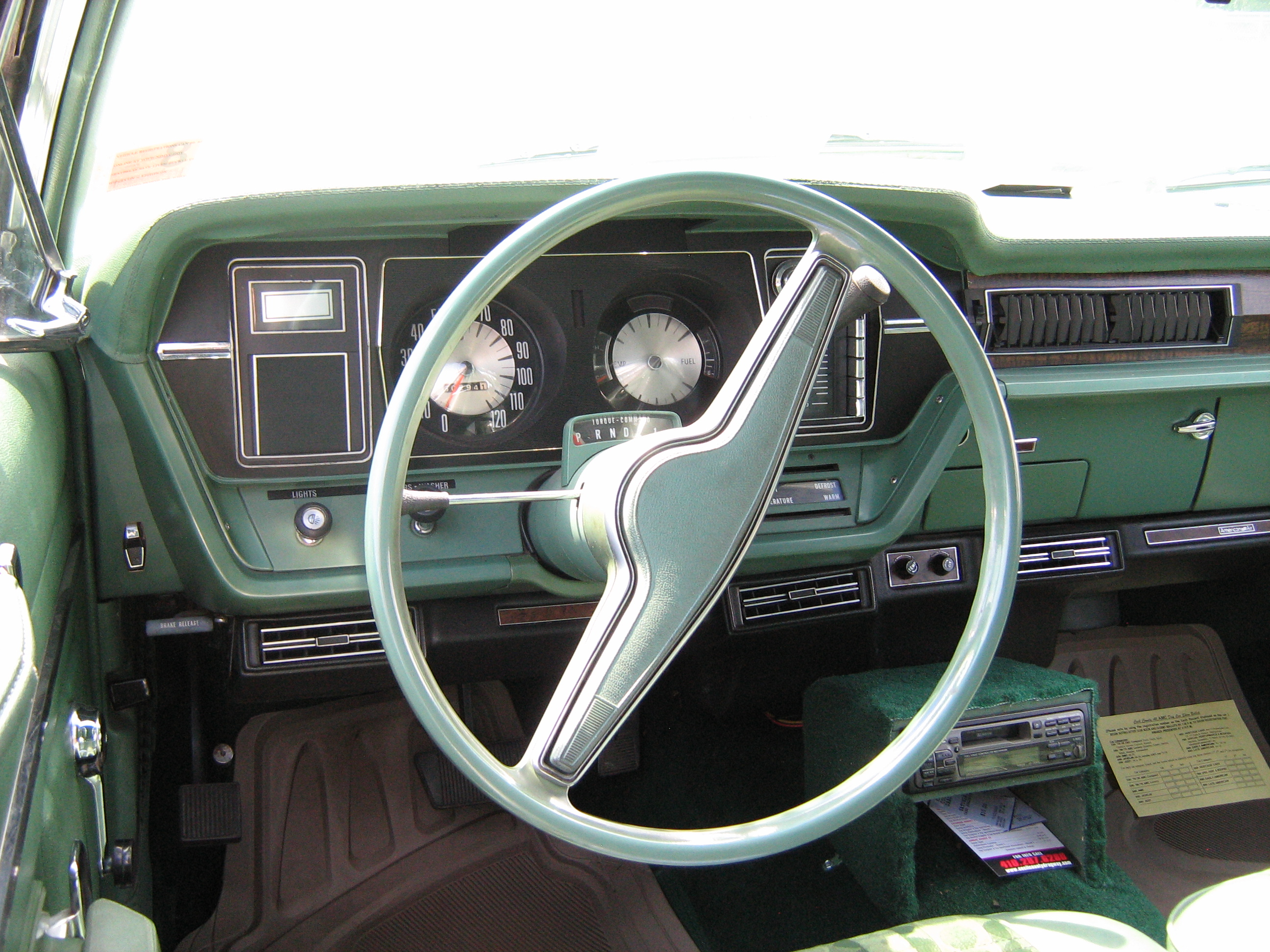 1973 AMC Matador (base model), an "intermediate-sized" station wagon made by American Motors Corporation (AMC). Interior driver's cockpit, steering wheel, dashboard (Note the AMC dealer installed "American Air" A/C system). Picture taken at an AMC show held at the Cecil County Dragstrip in Maryland.